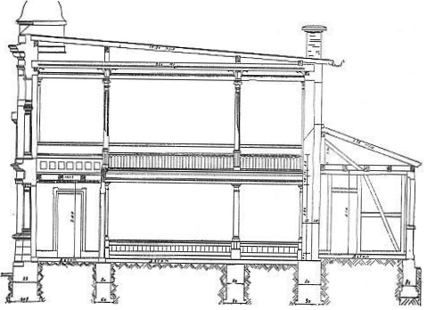 Architect drawing of the synagogue of Ettlingen, built in 1888